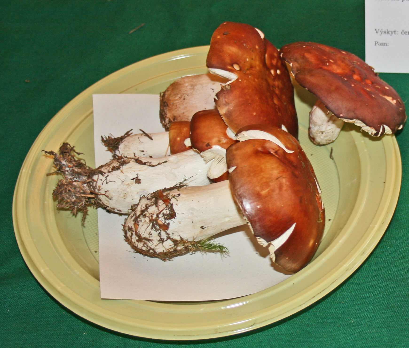 Russula paludosa, Russula paludosa at the 12-th countrywide mushroom exhibition 2008, Žofín, Prague, Czech Republic